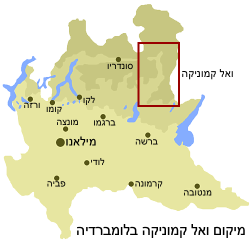 Position of the valley Val Camonica